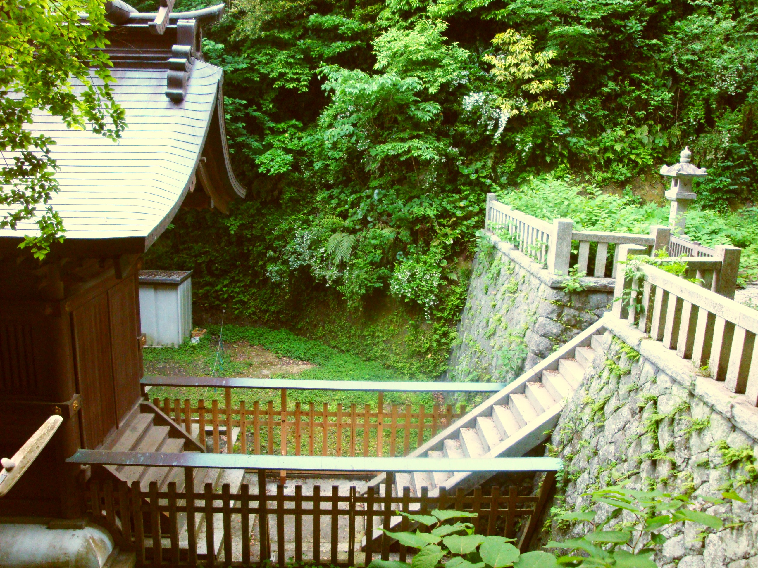 Amanawa Shinmei Jinja Shrine -- the oldest shrine in Kamakura, founded in 710 by Priest Gyoki (668-749) and Tokitada Someya. Main object of worship is Sun Goddess Amaterasu. Stairs between the haiden and honden.